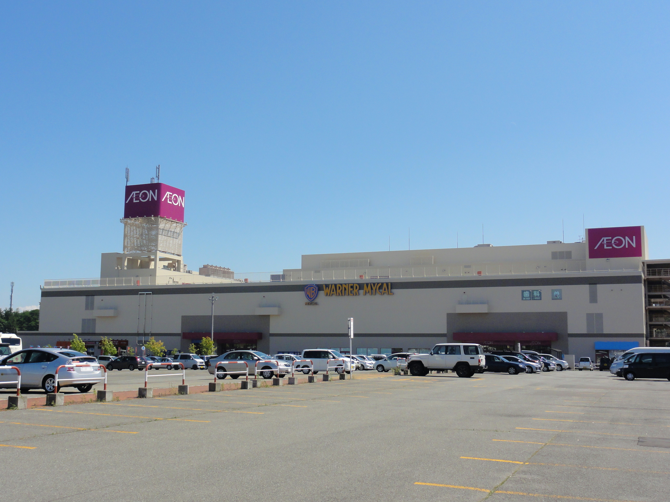 AEON Ebetsu (Ebetsu, Hokkaidō)